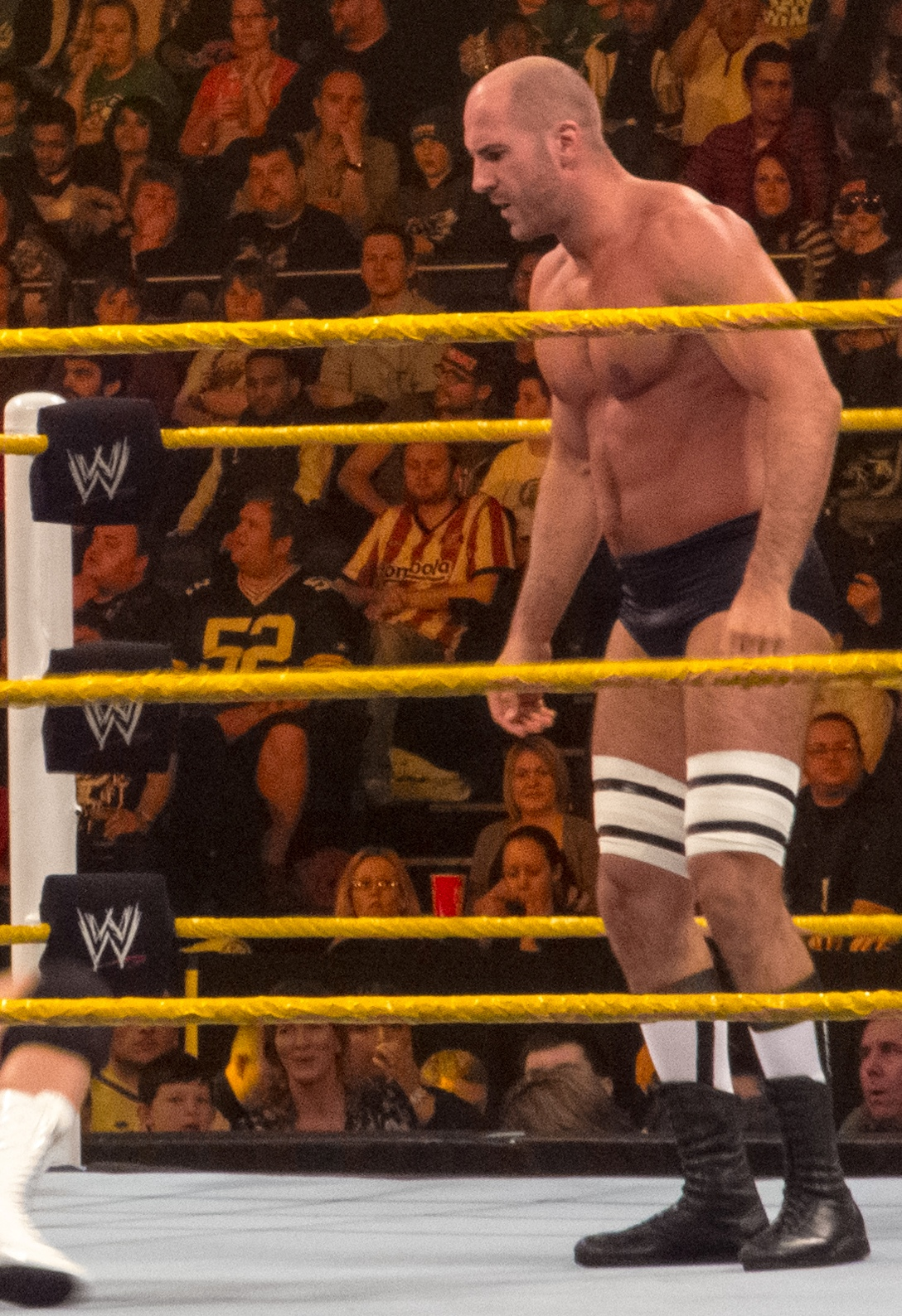 Claudio Castagnoli making his (non-televised) debut for WWE as Antonio Cesaro